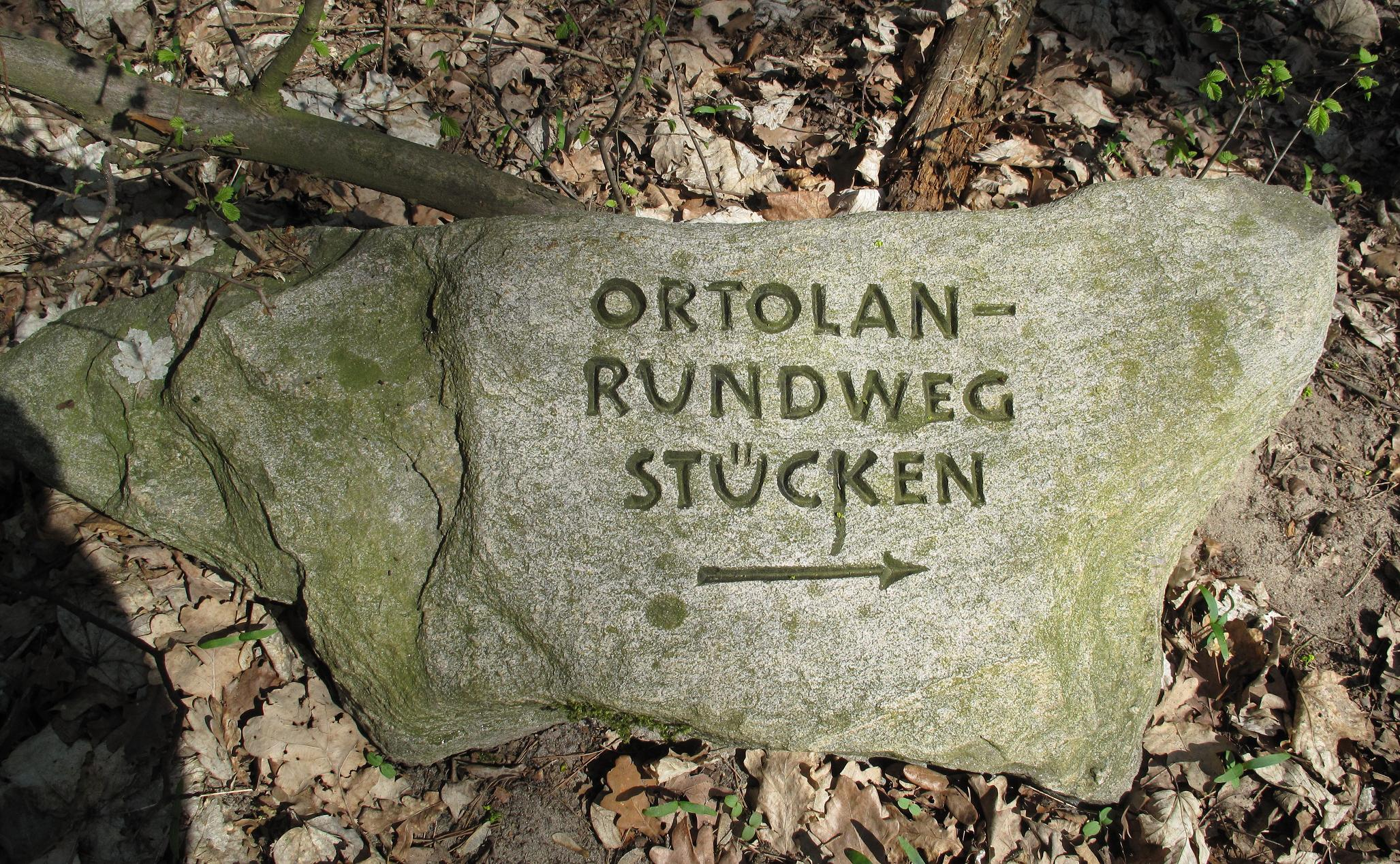 Ortolan-Rundweg (german for: Ortolan bunting circular path) in Stücken. Stücken is a part of Michendorf in the district Potsdam-Mittelmark, state Brandenburg, Germany. The village is situated in the Nuthe-Nieplitz Nature Park.